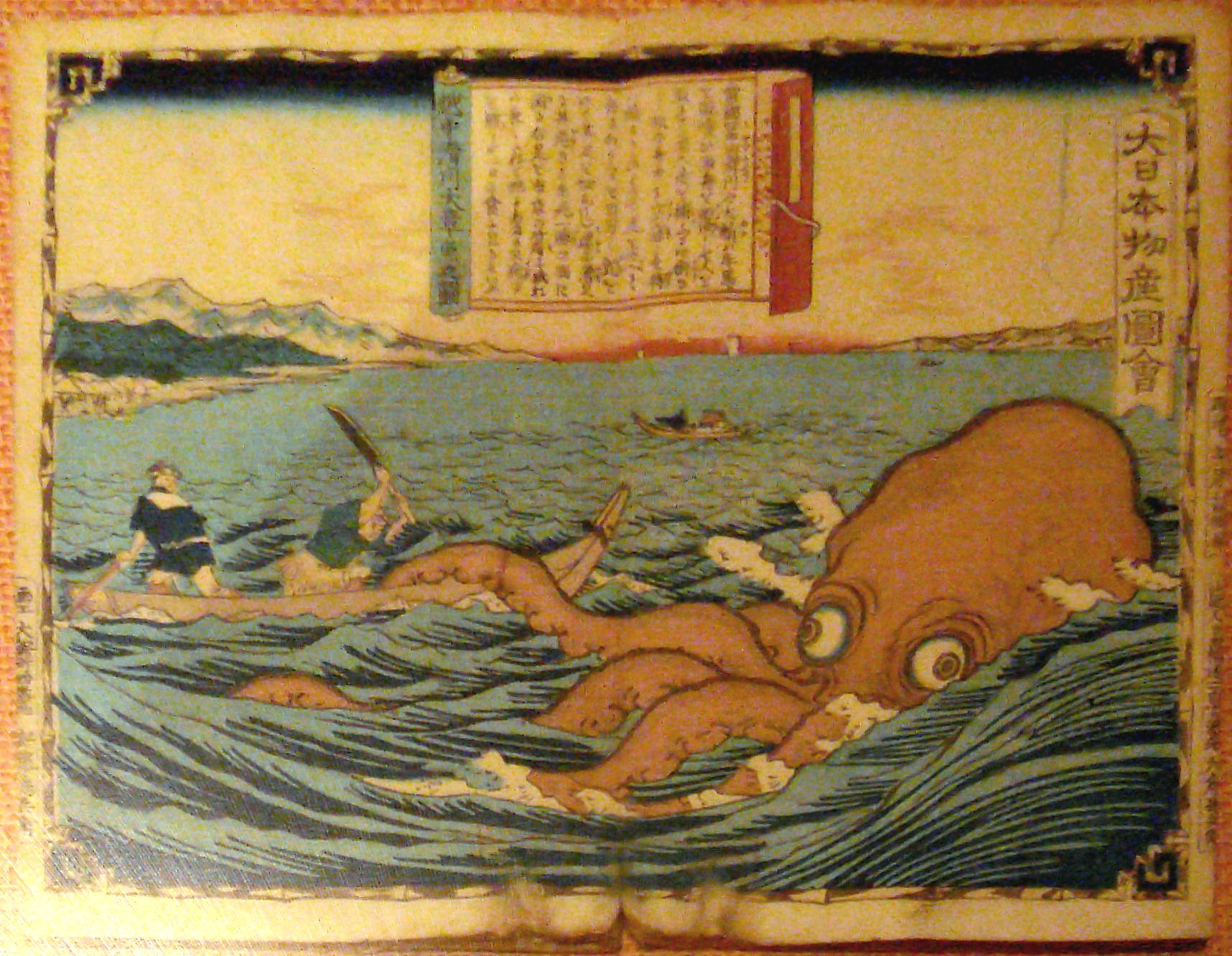 Japanese_print_Chassiron_collection, brought from Japan in 1861